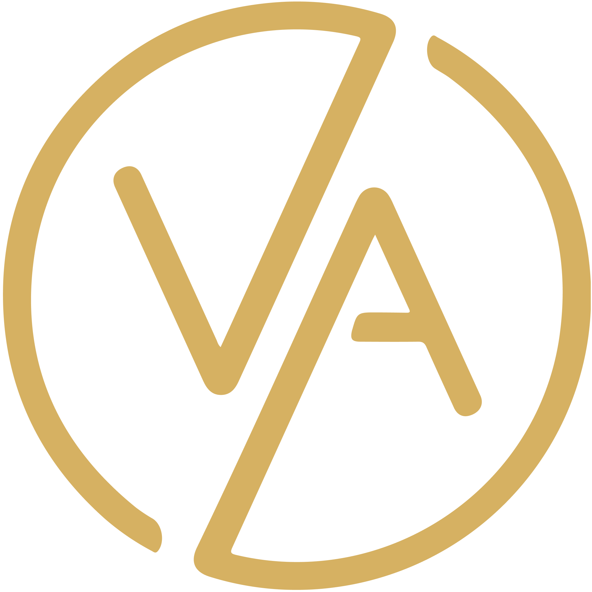 Logo obuvnické značky Vasky